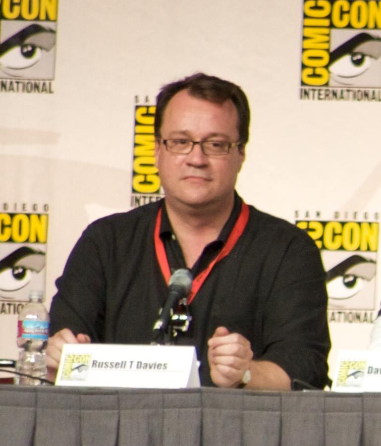 Screenwriter Russell T Davies – 2009 Comic-Con International – "Doctor Who" panel.